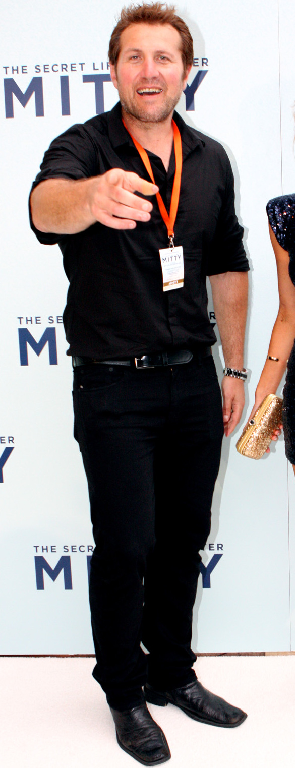 The Secret Life Of Walter Mitty Premiere in Sydney, Australia